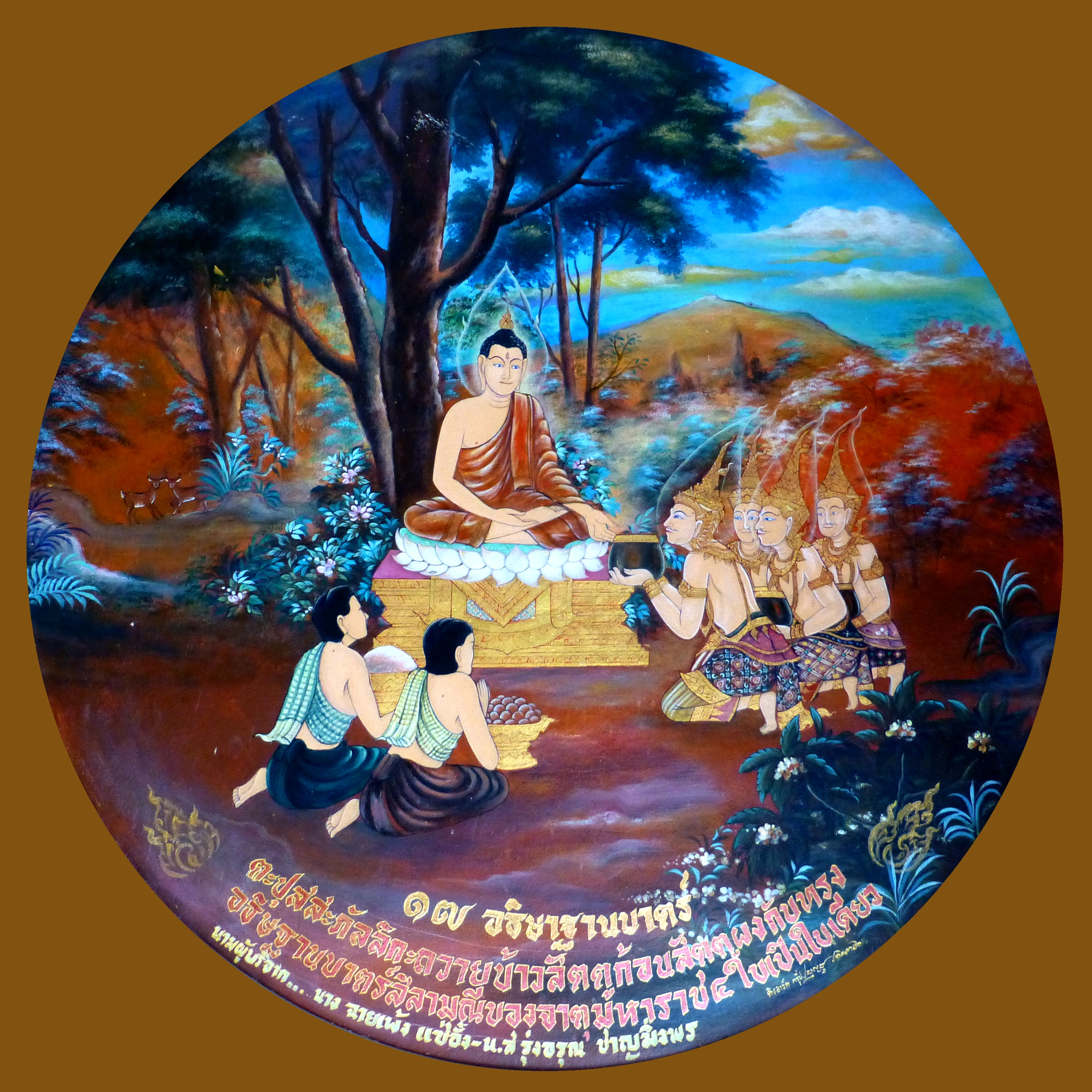 41 Tapussa and Bhallika give Food to Buddha who turns Four Almsbowls into One, Chedi Traiphop Traimongkhon Temple, Hatyai